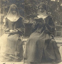 Mother Clare (left) and Mother Aloysius who founded the Carmelite Monastery in The Roman Catholic Diocese of Davenport, Iowa.